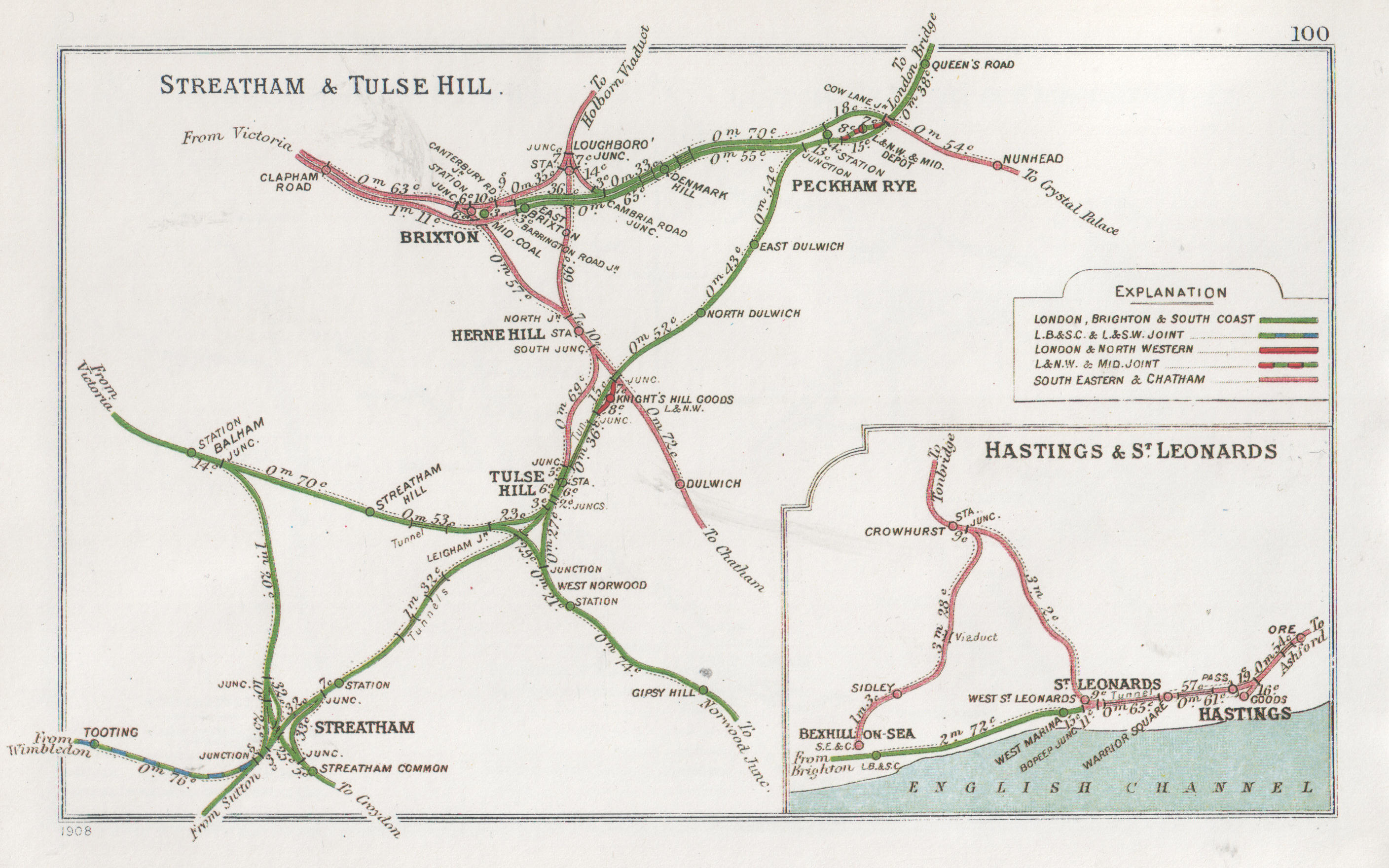 Pre Grouping railway junction around Streatham & Tulse Hill; Hastings & St Leonards. The lines owned by the London, Chatham and Dover Railway and used by the South Eastern and Chatham Railway are in pink; the lines of the London, Brighton and South Coast Railway are in green.